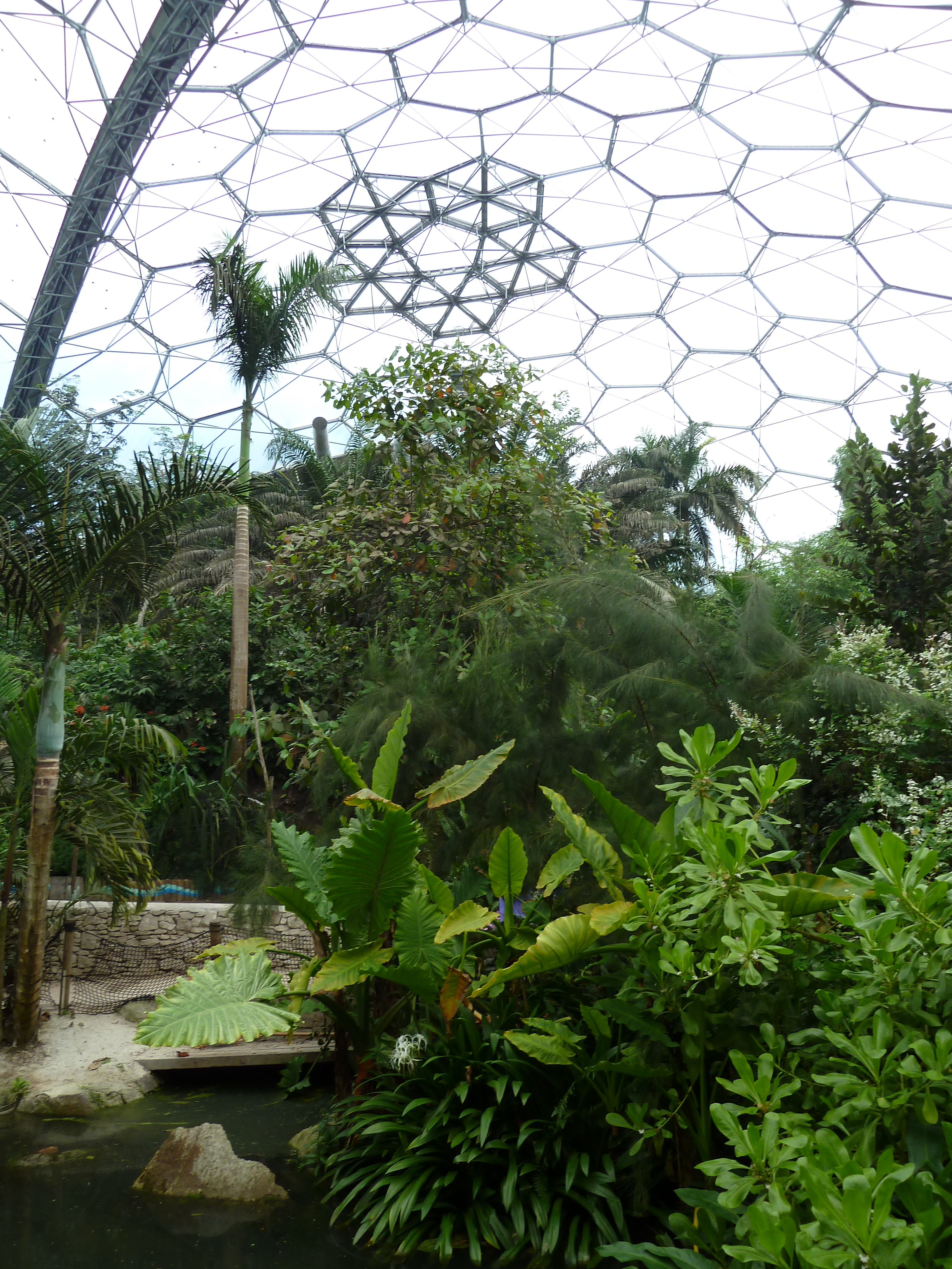 Rainforest Biome @ Eden Project